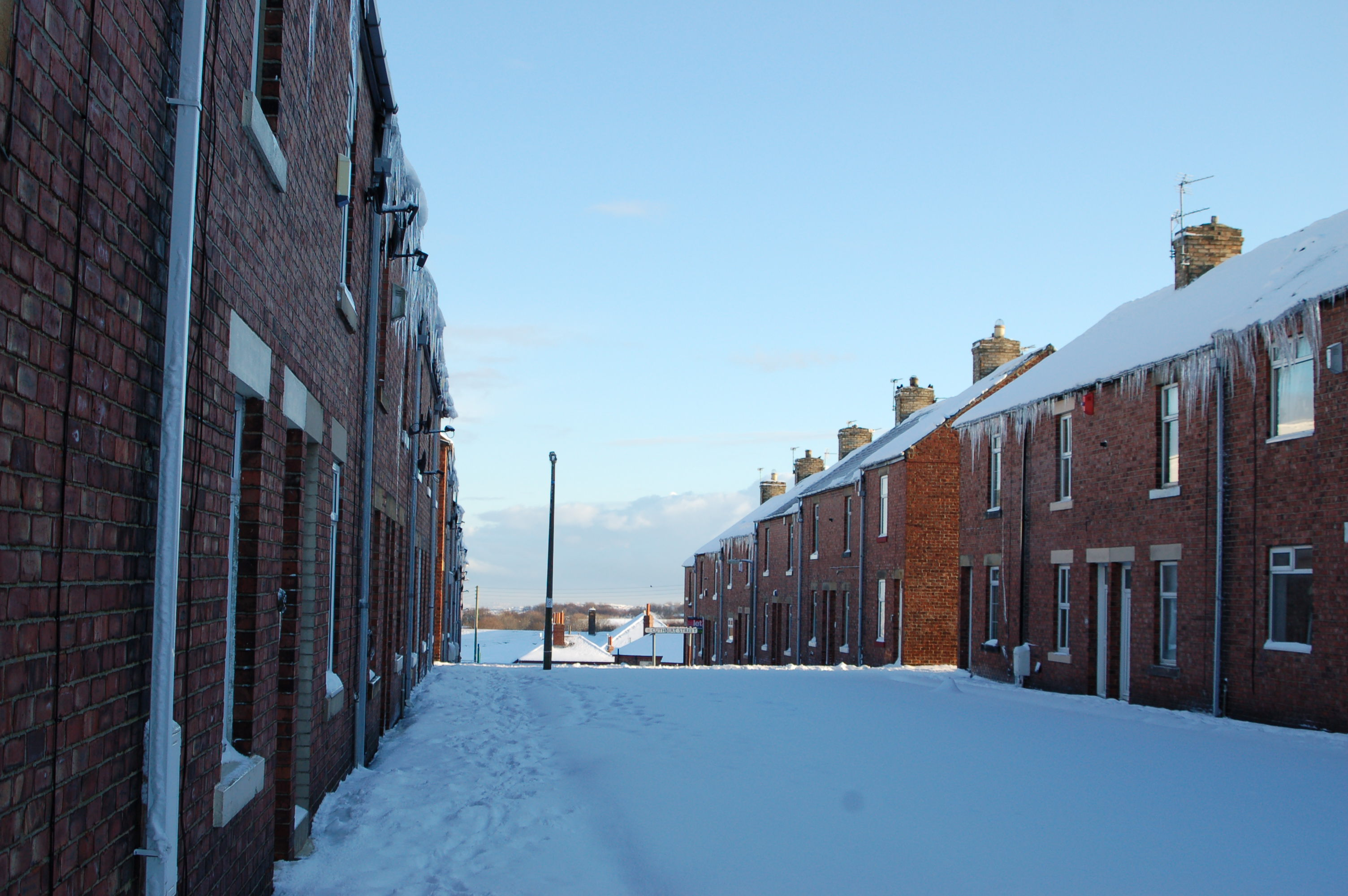 Cuthbert Street, looking towards aged miner's cottages and community centre.